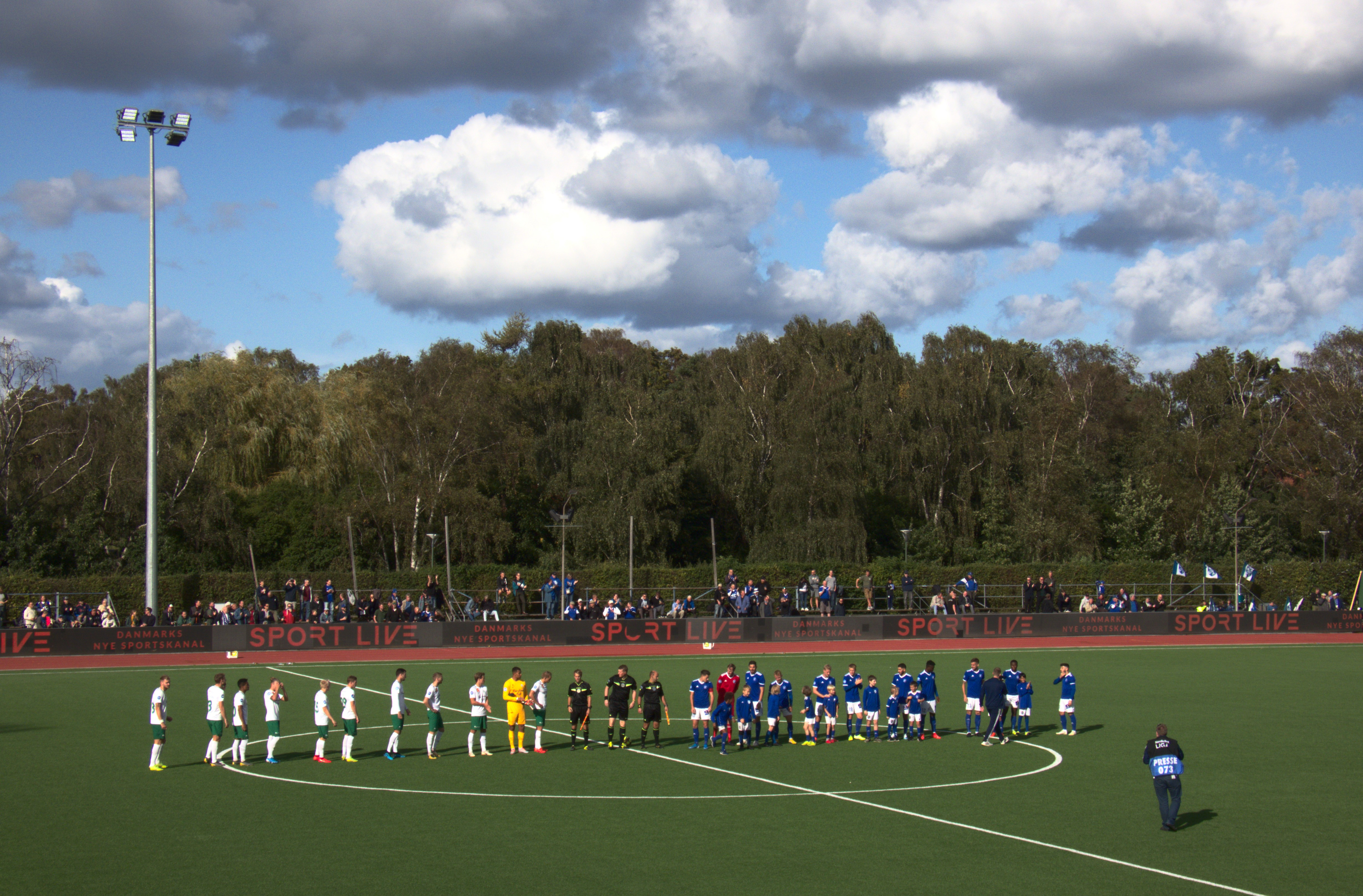 Players of BK Fremad Amager and Viborg FF moments before a match in the Danish 1st division.